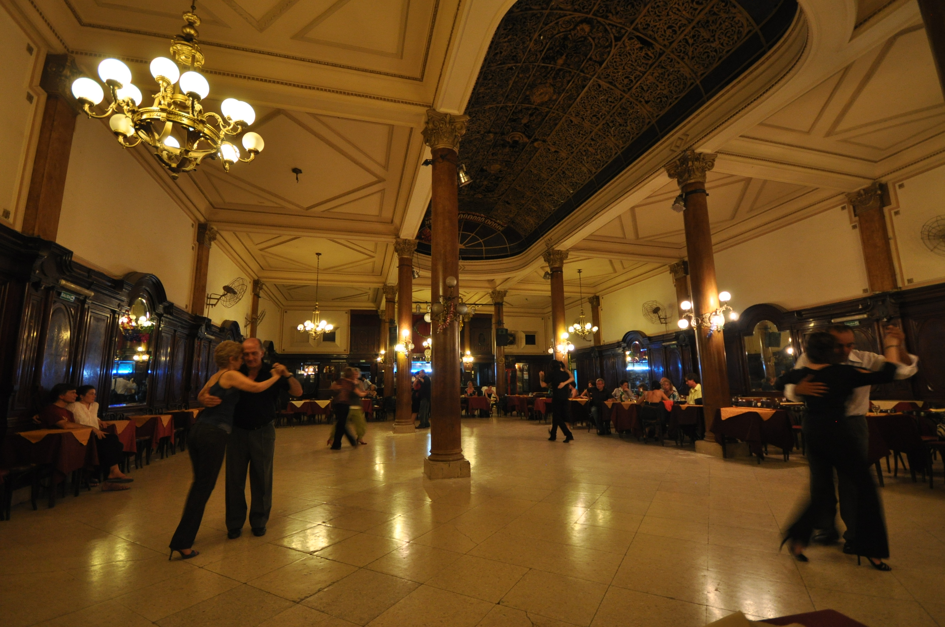 Milonga is a term for a place or an event where tango is danced. People who frequently go to milongas are sometimes called milongueros. The term "milonga" can also refer to a musical genre. Confitería Ideal: An old-fashioned milonga where dances are held afternoons and evenings, almost every day of the week. Confiteria Ideal was the setting for films like The Tango Lesson and Evita.